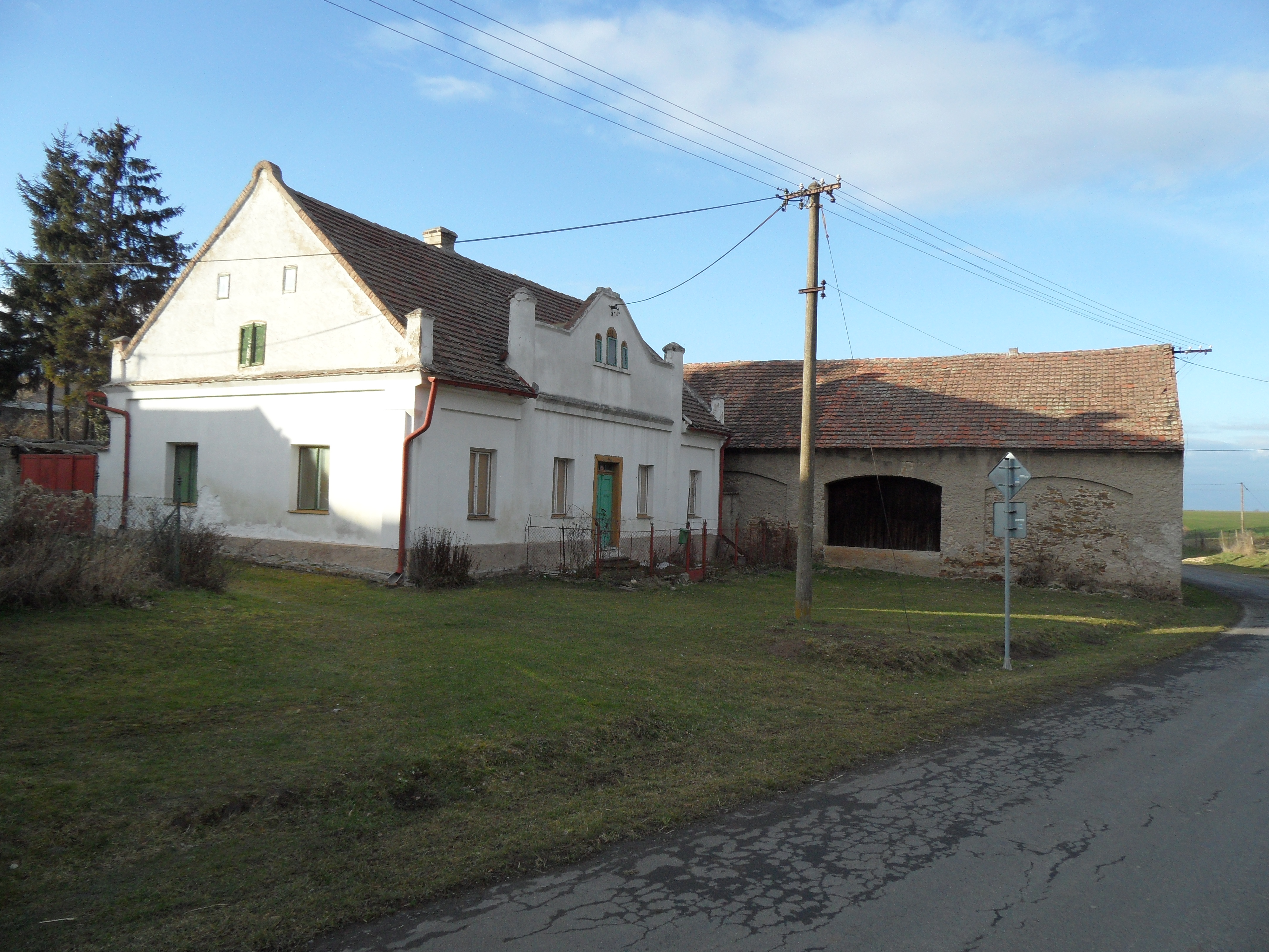 Chocenice (Břežany I) C. Houses on the Village Square, Kolín District, the Czech Republic.